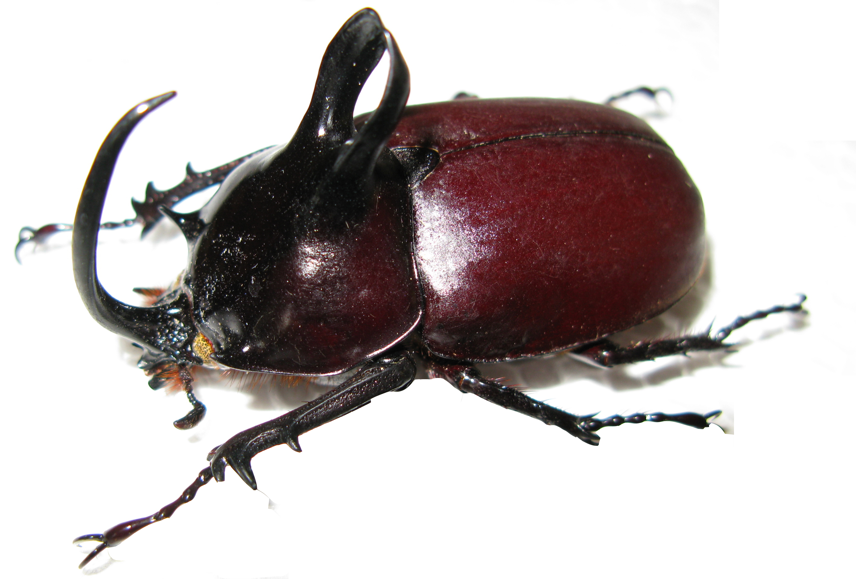 Eupatorus birmanicus